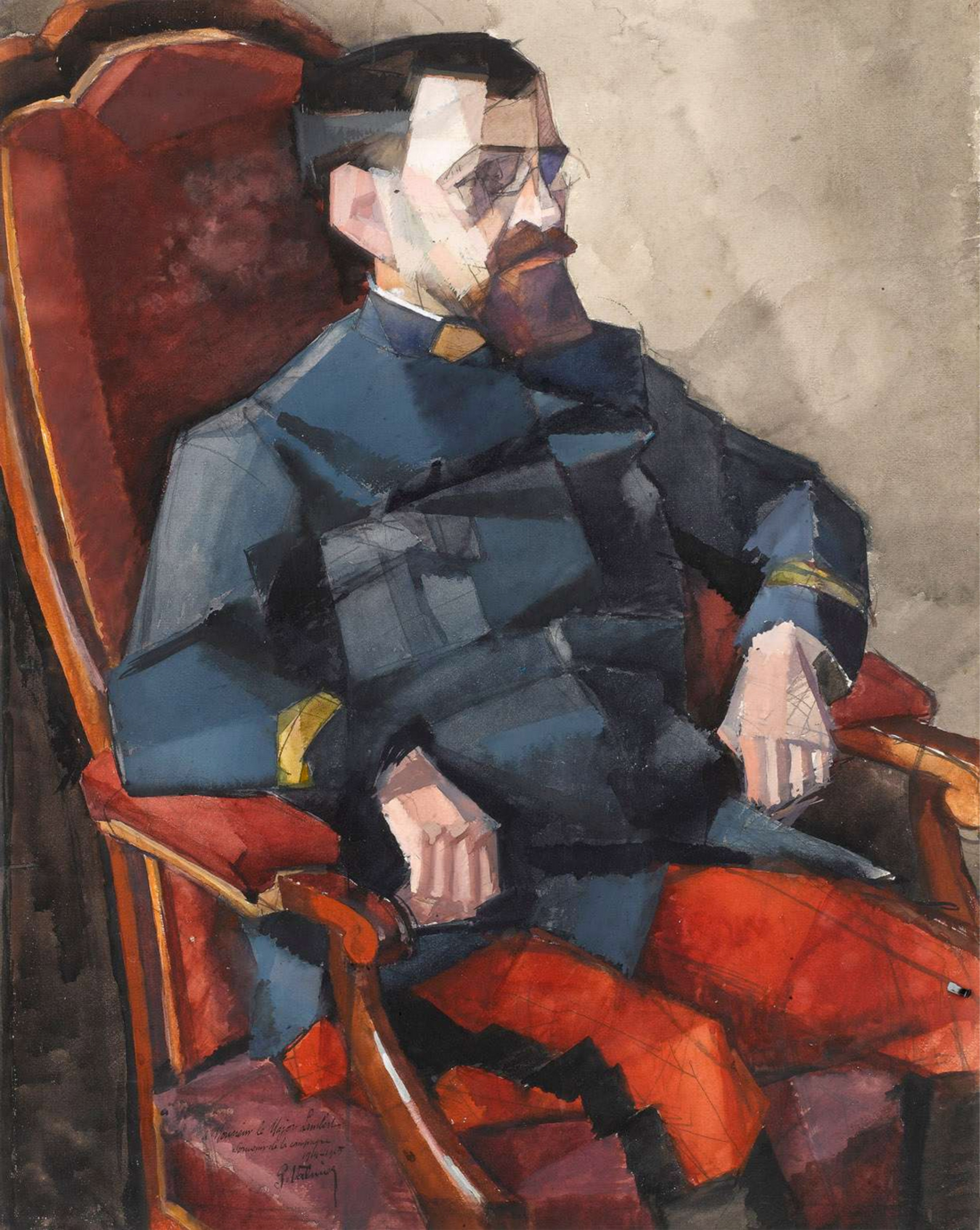 Georges Valmier, 1914-15, Portrait de Commandant Lambert (Portrait of Major Mayer-Simon Lambert), gouache and watercolor over pencil, 63.2 x 50.8 cm (24 3/4 x 19 7/8 in.), The Triton Foundation, Netherlands. Signed and dedicated à Monsieur le Major Lambert / Souvenir de la campagne / 1914-1915 / G. Valmier, lower left.